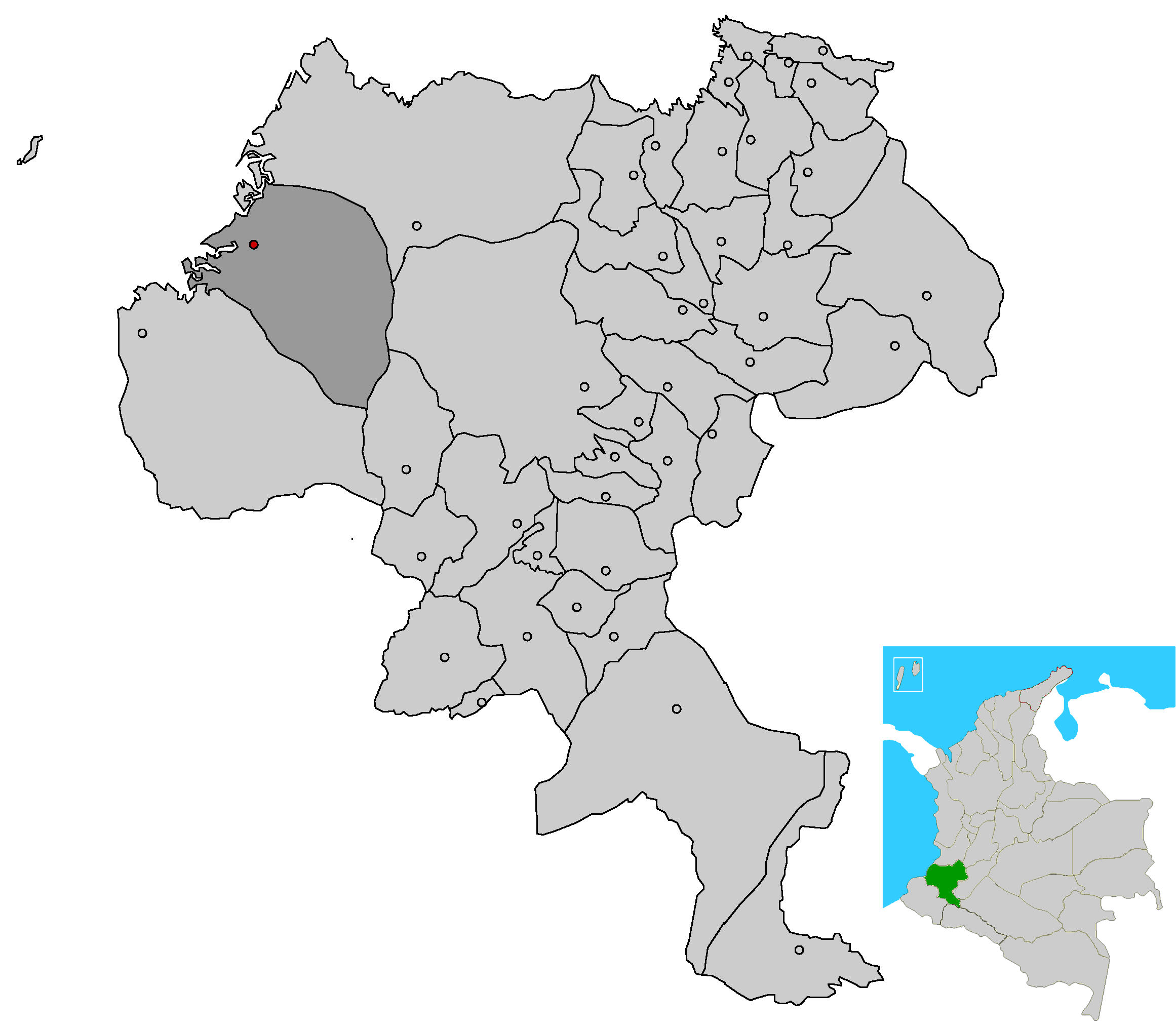 Image depicting map location of the town and municipality of Timbiqui Cauca Department, Colombia